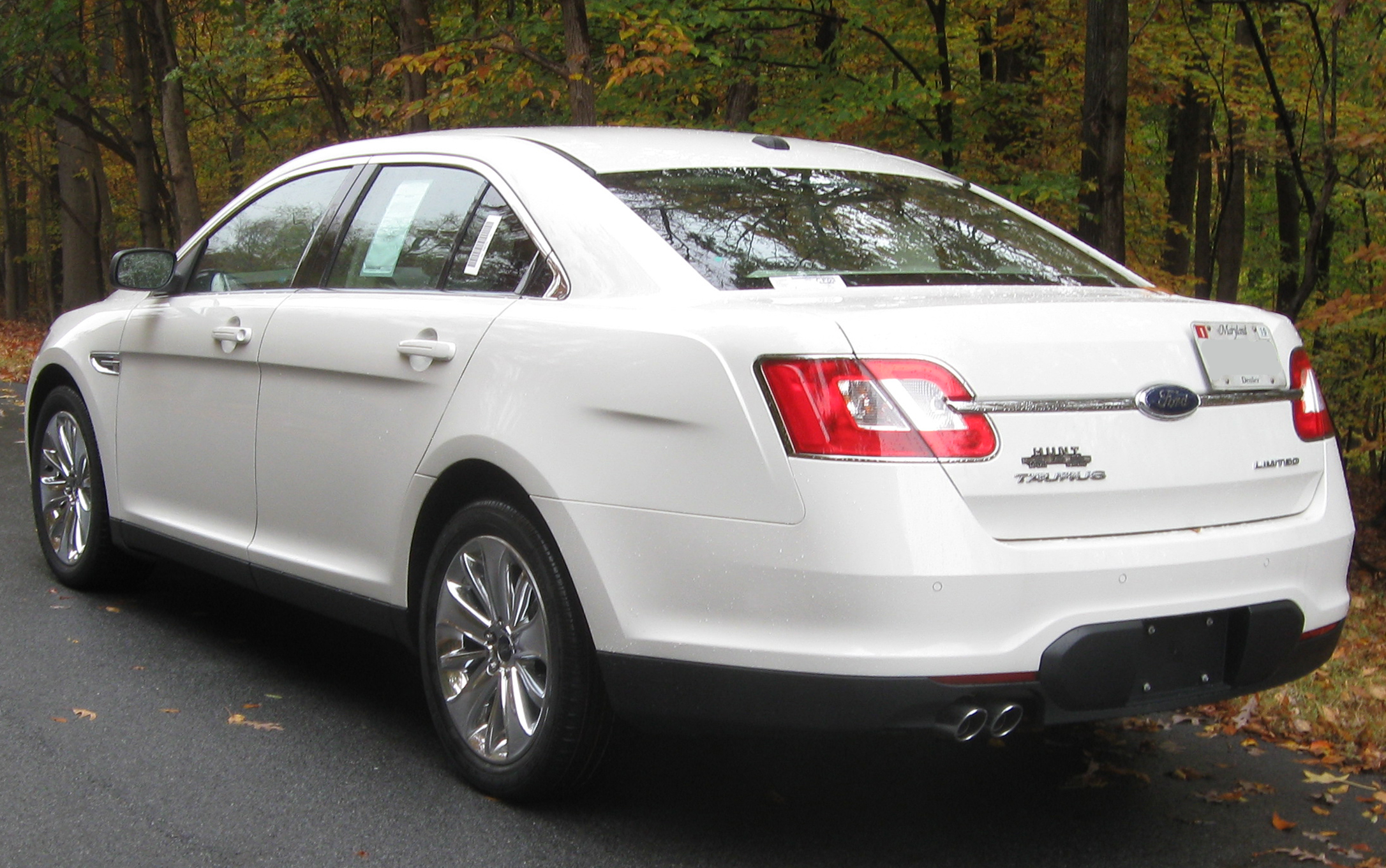 2010 Ford Taurus Limited photographed in La Plata, Maryland, USA.